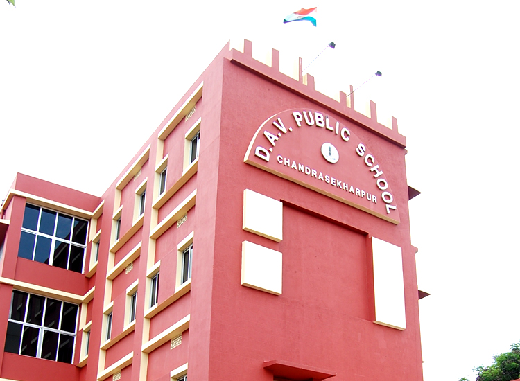 One of the top CBSE schools in India